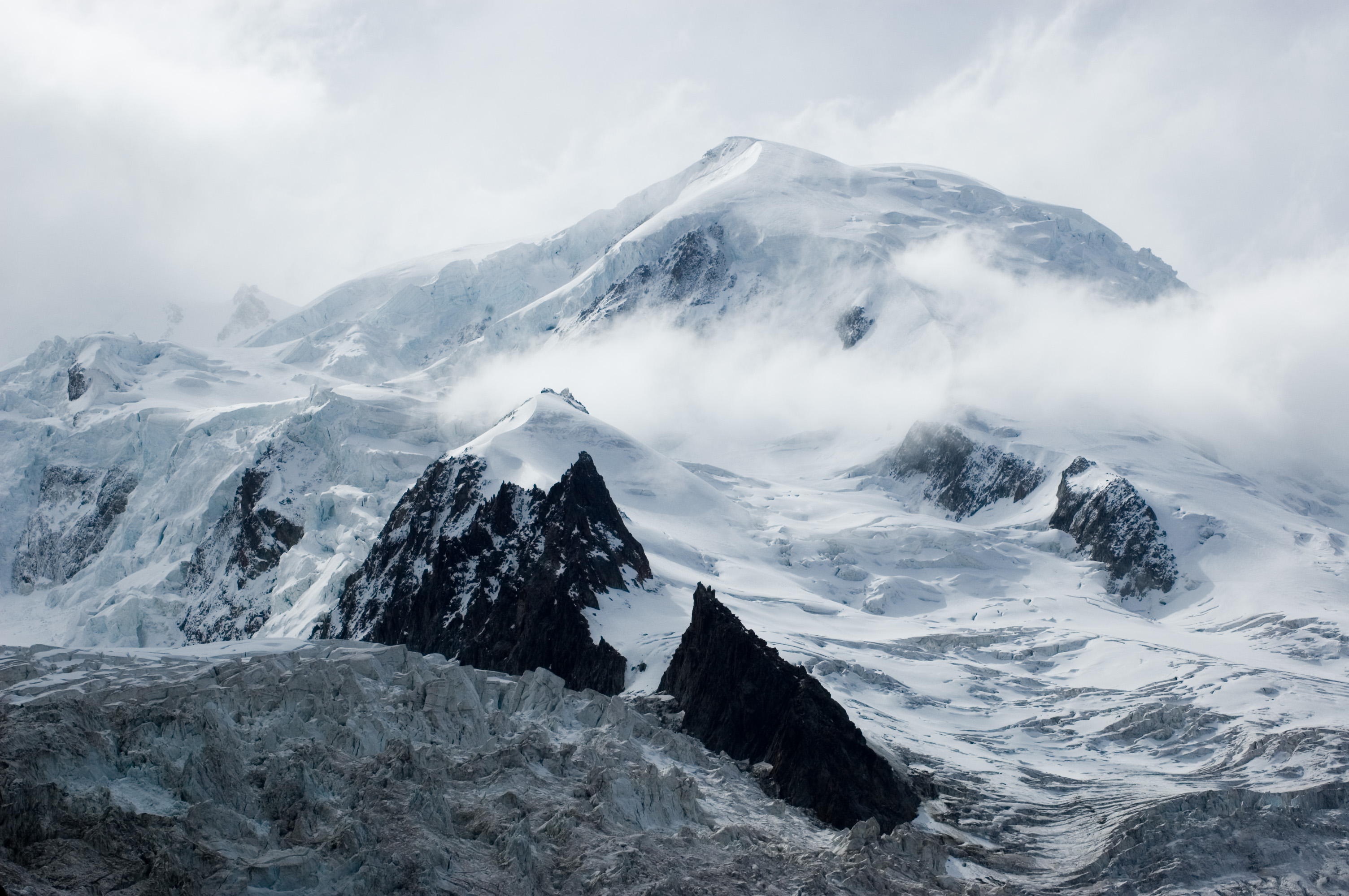 The summit of Dôme du Goûter seen from the Gare des Glaciers.